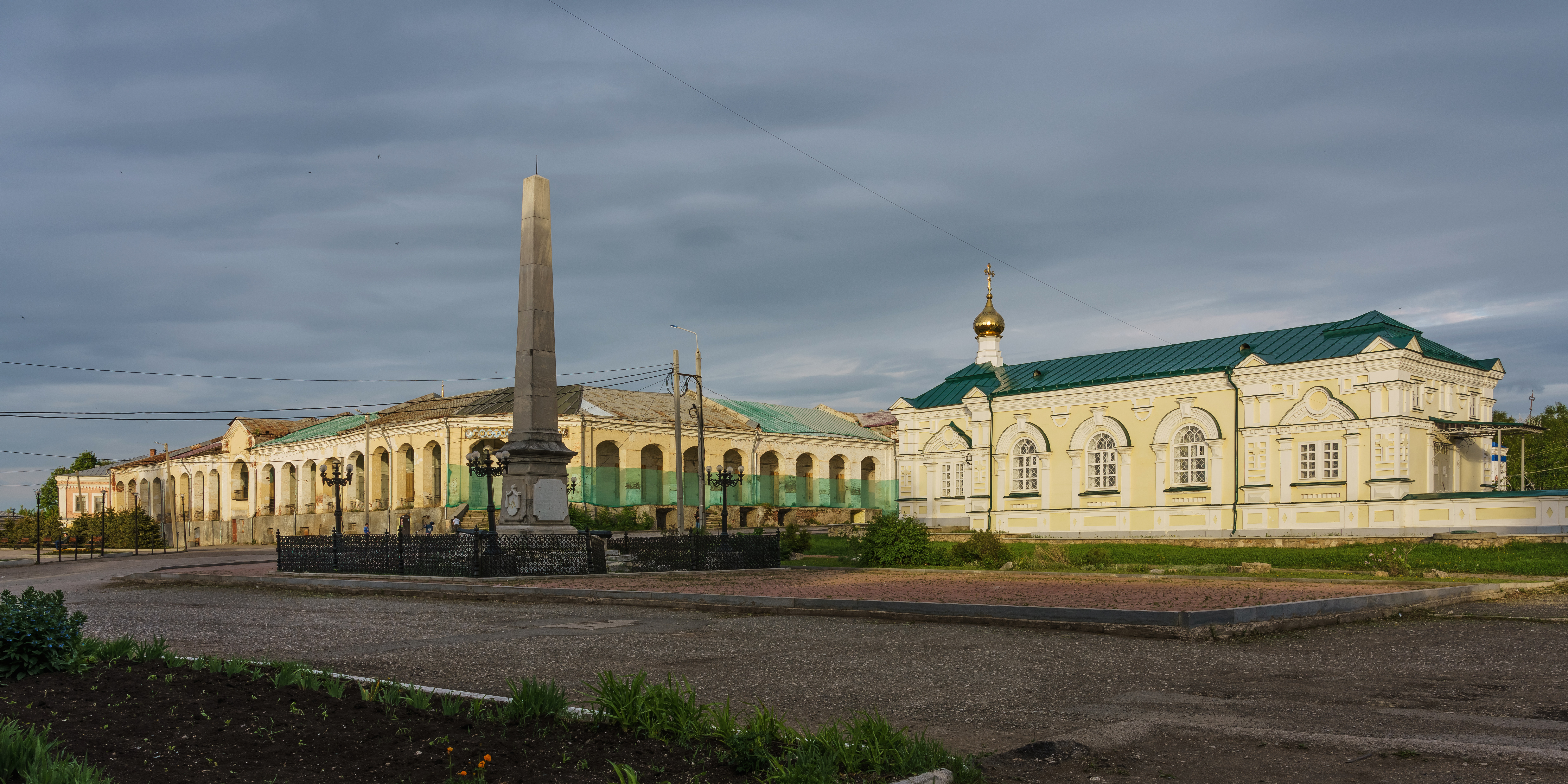 Ensemble of Cathedral Square (Trade Rows; Obelisk dedicated to Liberation from Pugachev Riot; and St. Alexius Church) in Kungur, Perm Krai, Russia